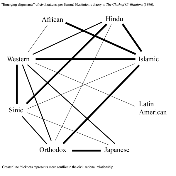 This is a chart describing civilizational relationships predicted by Samuel Huntington, similar to one presented in his book The Clash of Civilizations.